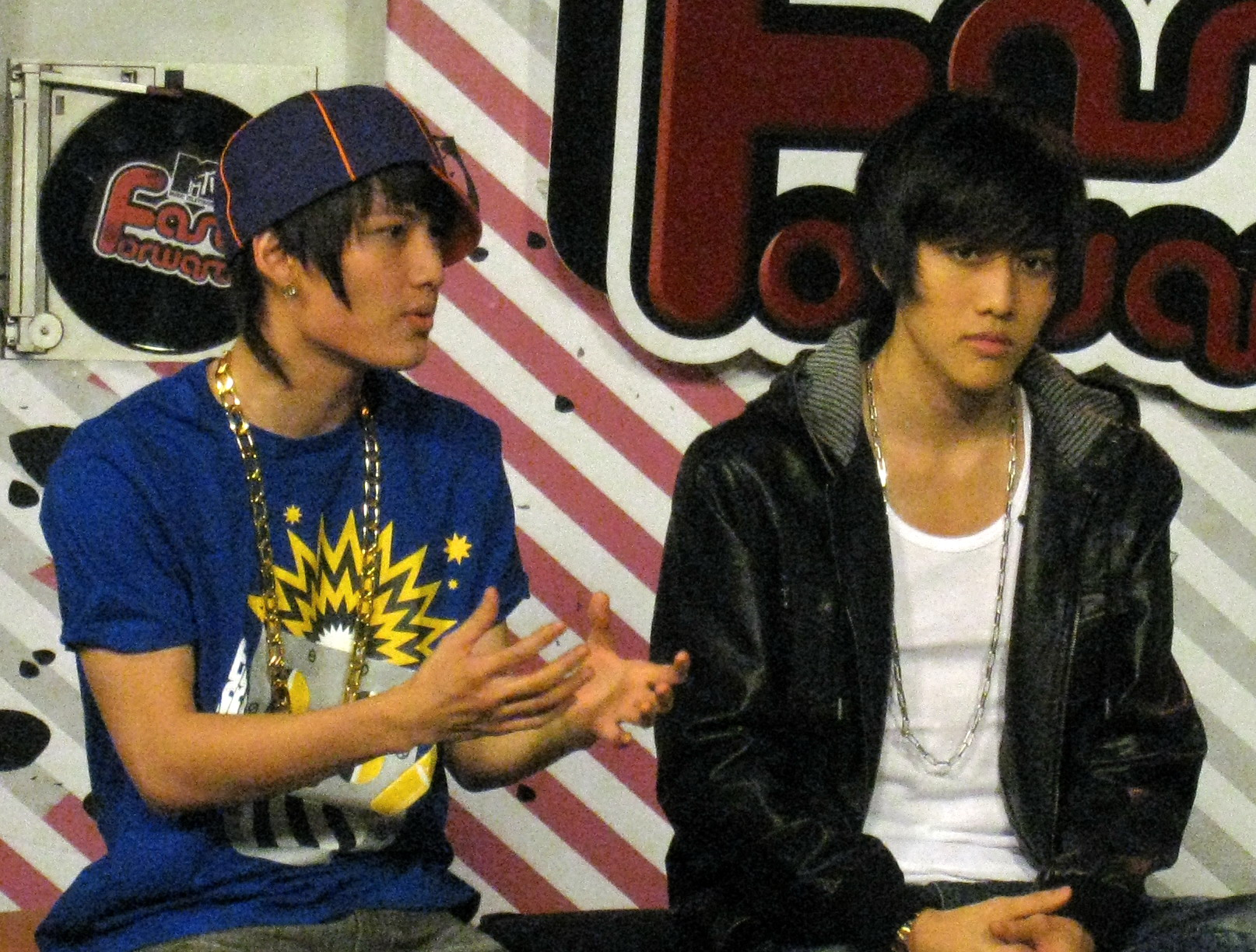 Golf-Mike Interviewed at MTV Fast Forward